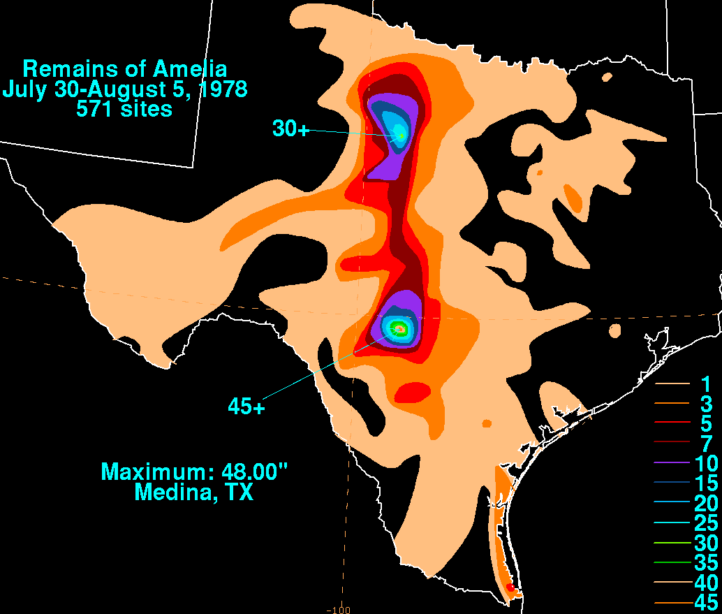 Storm total rainfall map of Tropical Storm Amelia during July and August 1978.